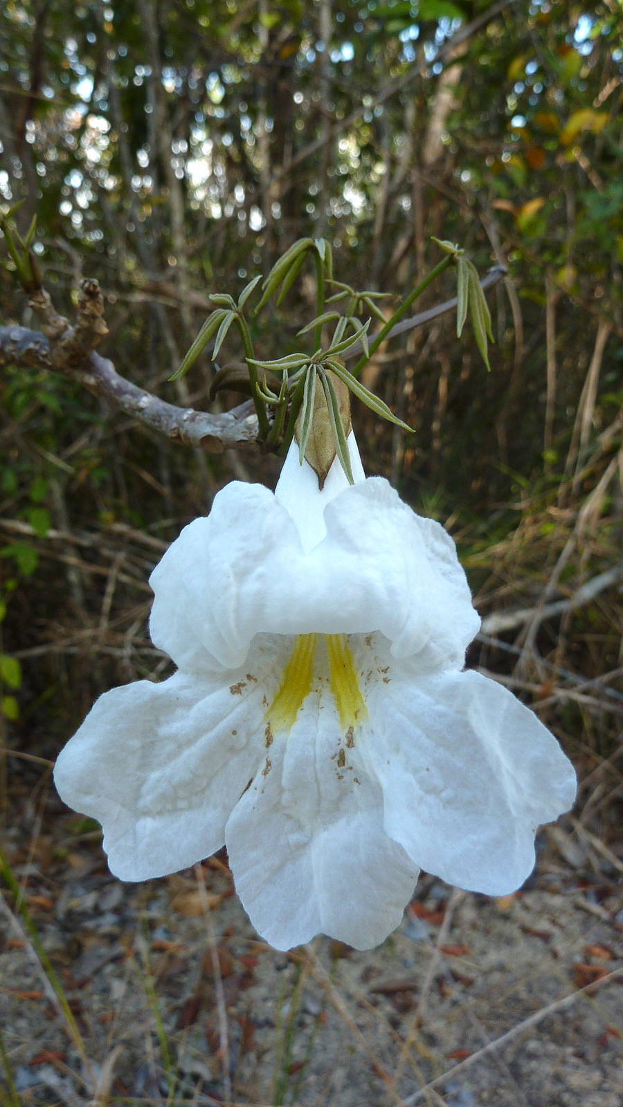 Tabebuia elliptica (A. DC.) Sandwith